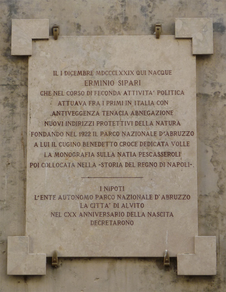 Stone inscription placed on "Sipari Palace" of Alvito (Italy) in the 120th anniversary of the birth of Erminio Sipari (1879-1968), founder and first president of Parco Nazionale d'Abruzzo.